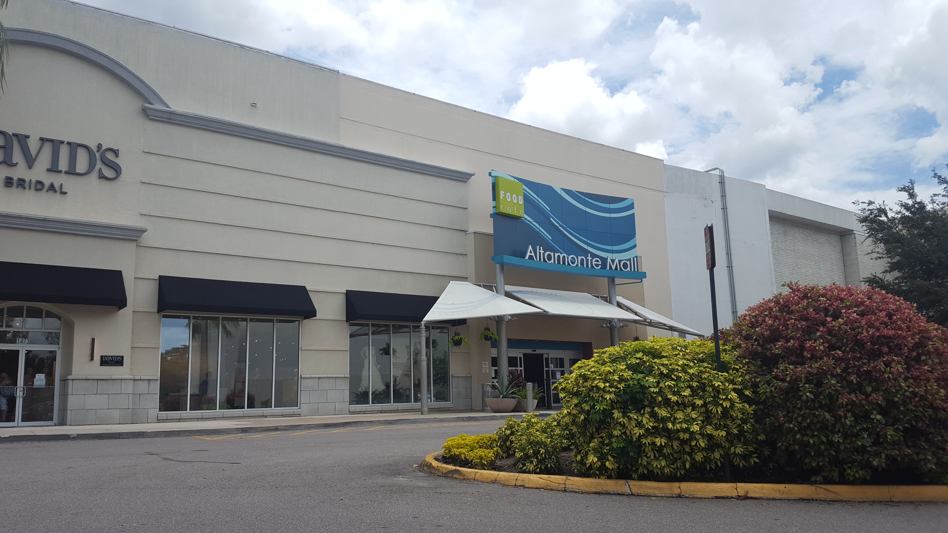 Altamonte Mall Altamonte Springs, FL July 2017